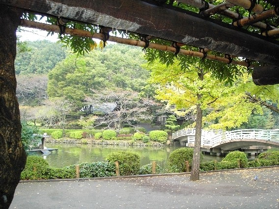 Yakushi-Ike Park in Machida, Tokyo. Photographer is JL (myself). History of Image:Yakushi.jpg Erased japanese slogans on this picture by Dj nix (Talk